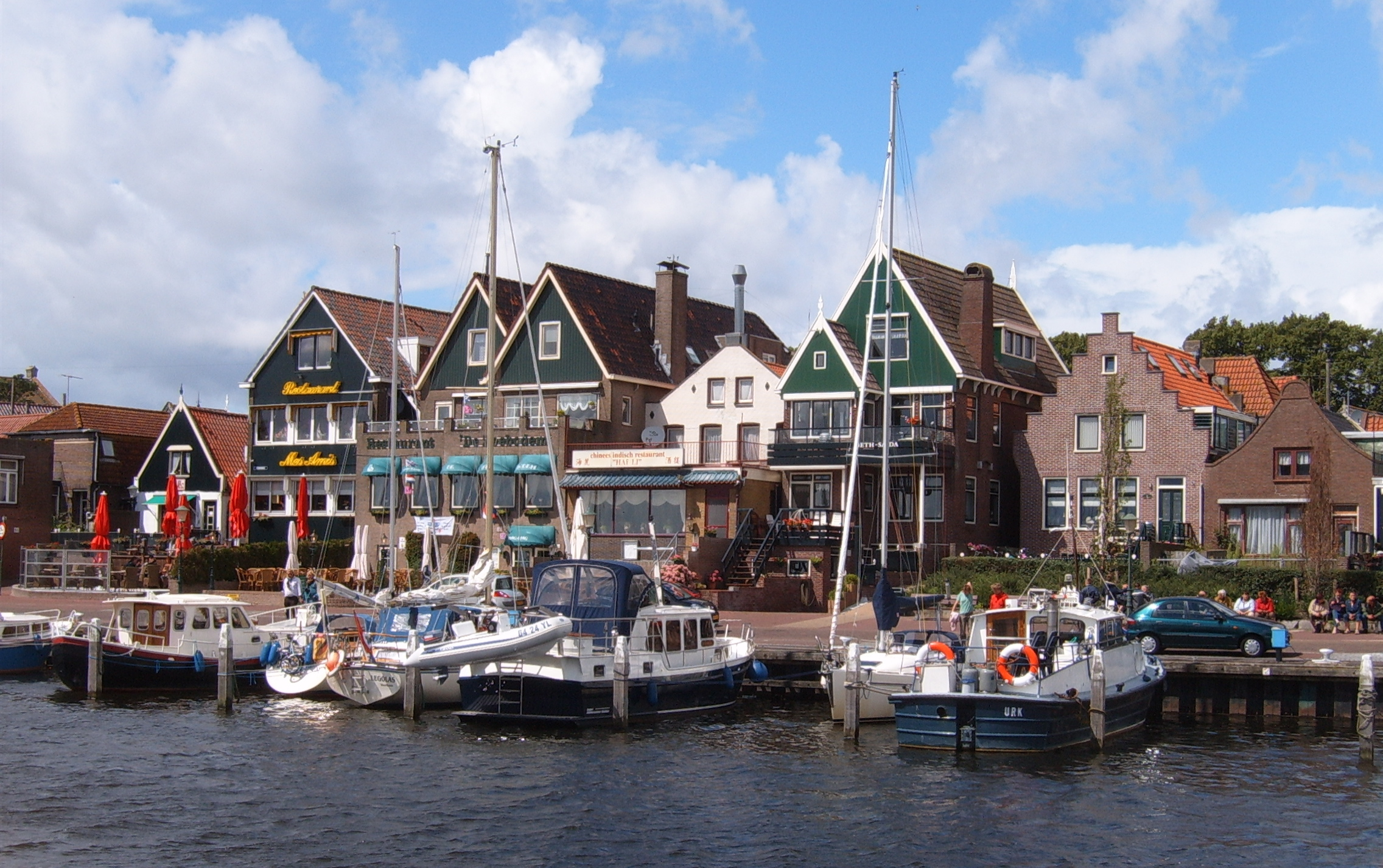 Urk (Netherlands)